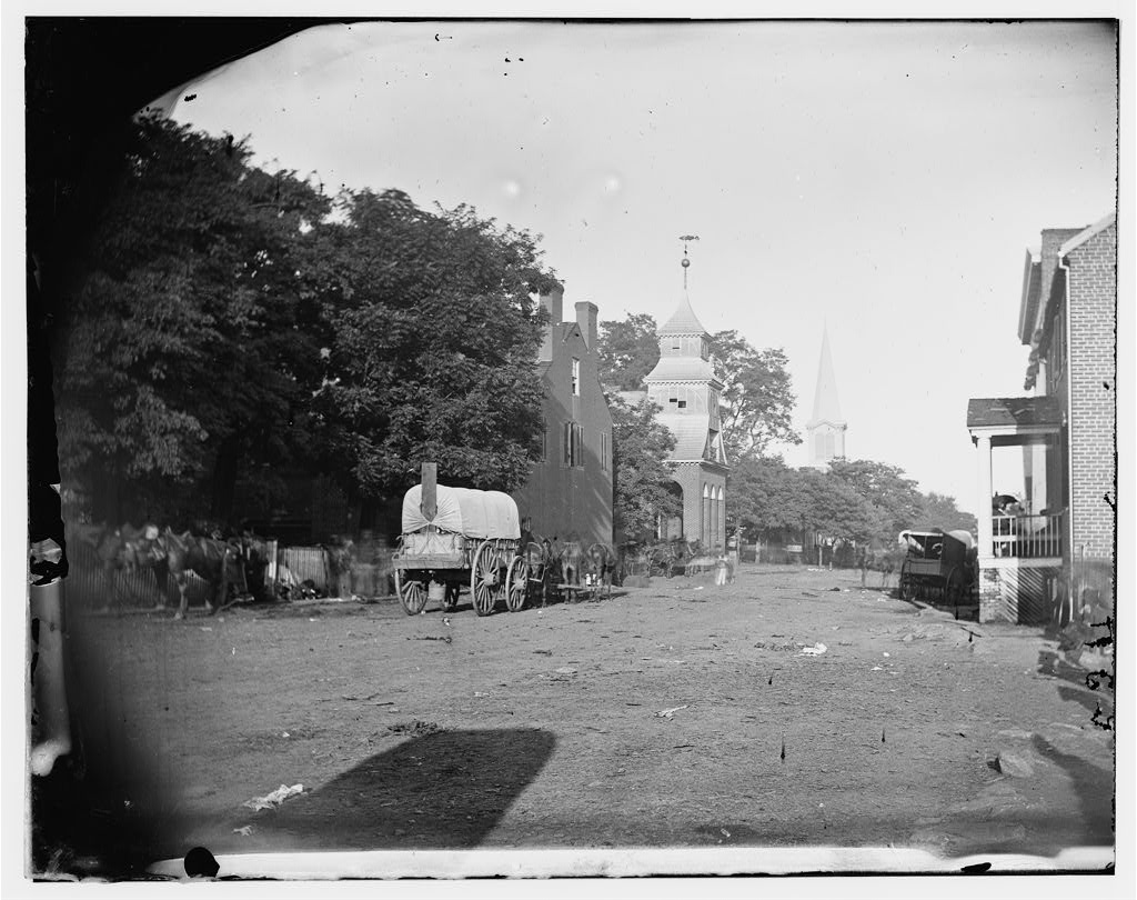 Culpeper Courthouse in 1862